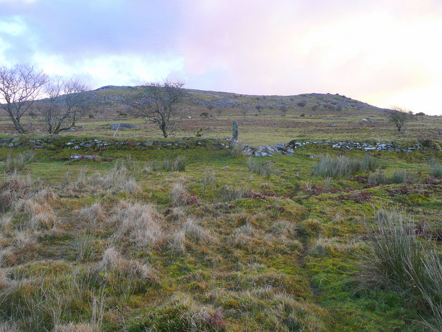 Stowe's Hill Looking from the west at this double-headed feature on the eastern edge of Bodmin Moor.